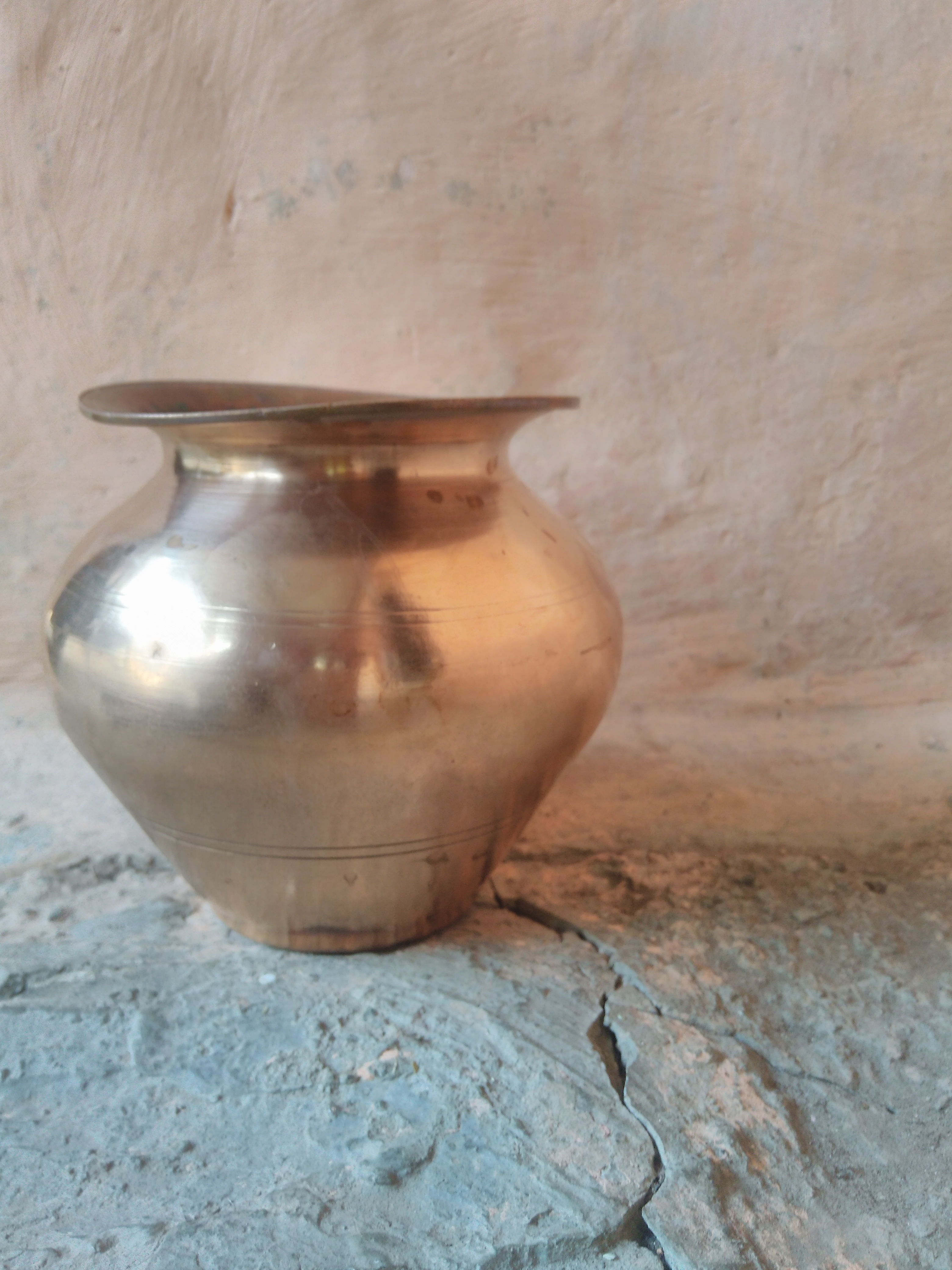 पूजेचे साहित्य